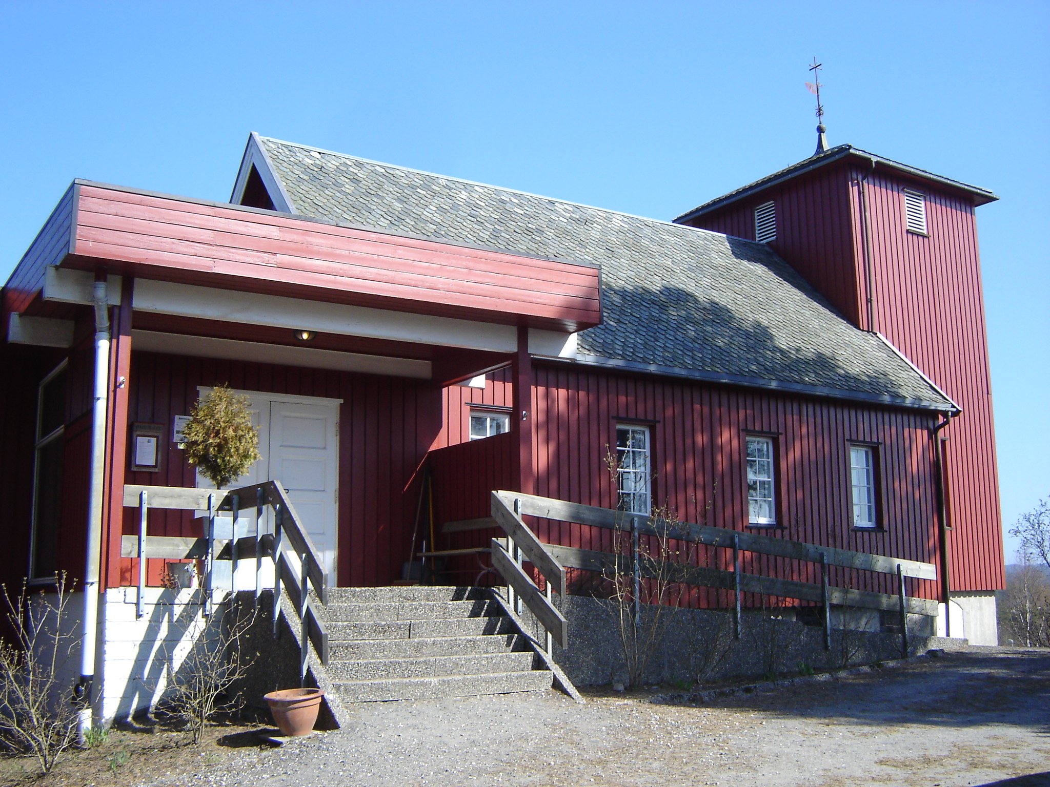 Ørje kirke, Østfold, Norway. Picture taken by Vidariv April 25. 2009